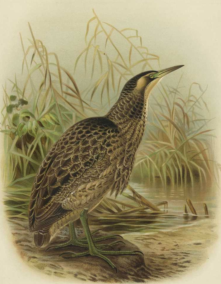 Hūrepo or Matuku, Australasian Bittern, Botaurus poiciloptilus, also known as the Brown Bittern.